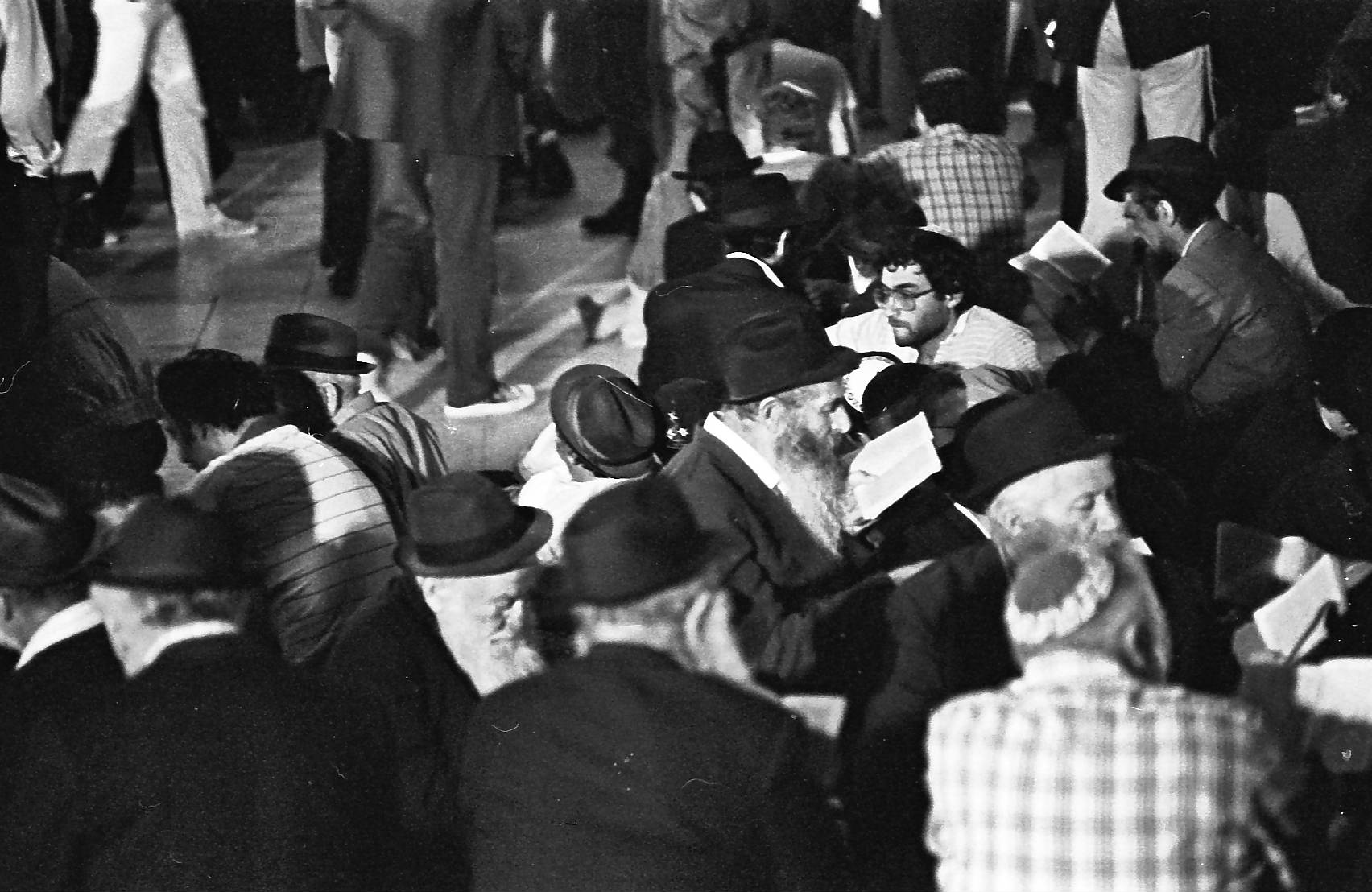 9 av kotel, Religion in Israel